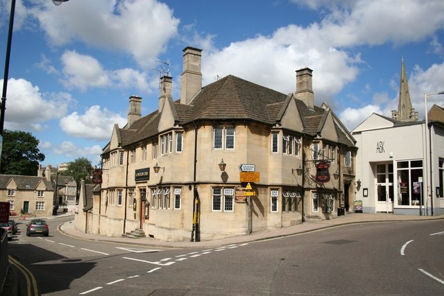 The London Inn. Historic hostelry on the former Great North Road in Stamford